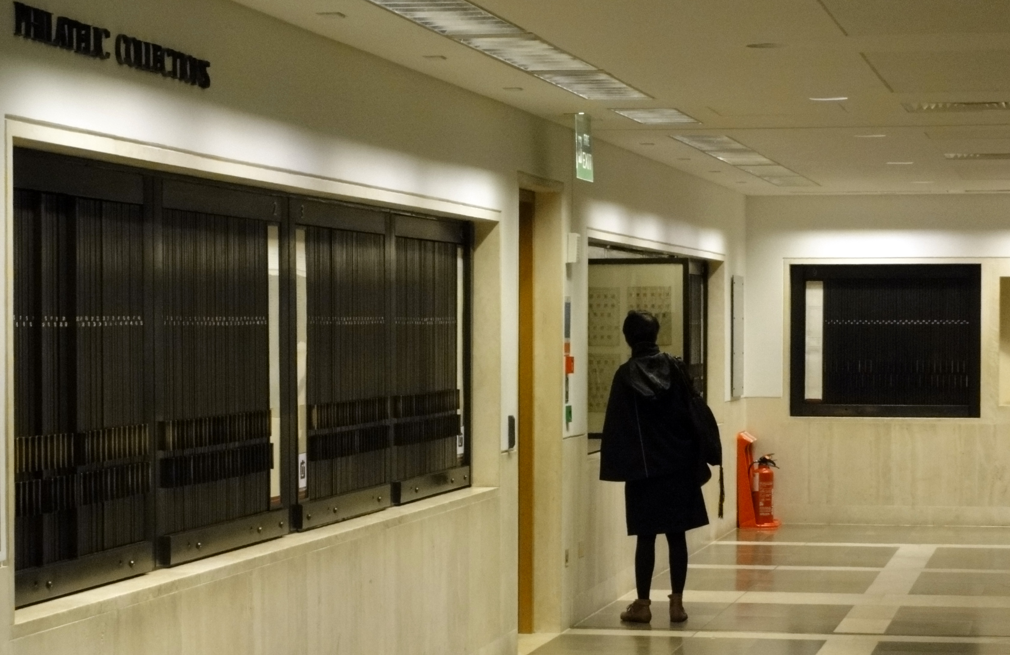 Main exhibition area for the Philatelic Collection of the British Library.